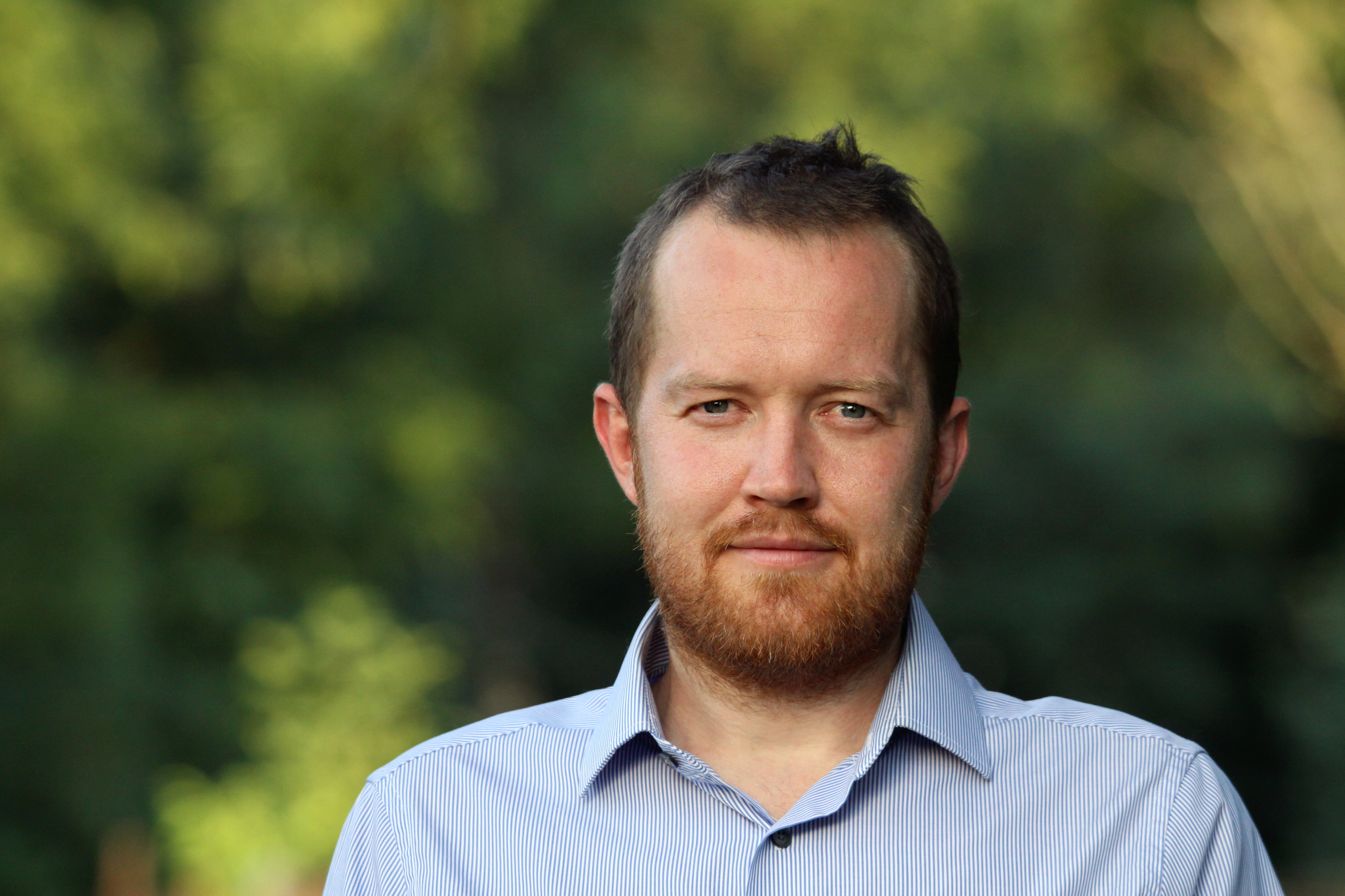 Mgr. Petr Brož, Ph.D., czech scientist focusing about volcanism across the solar system